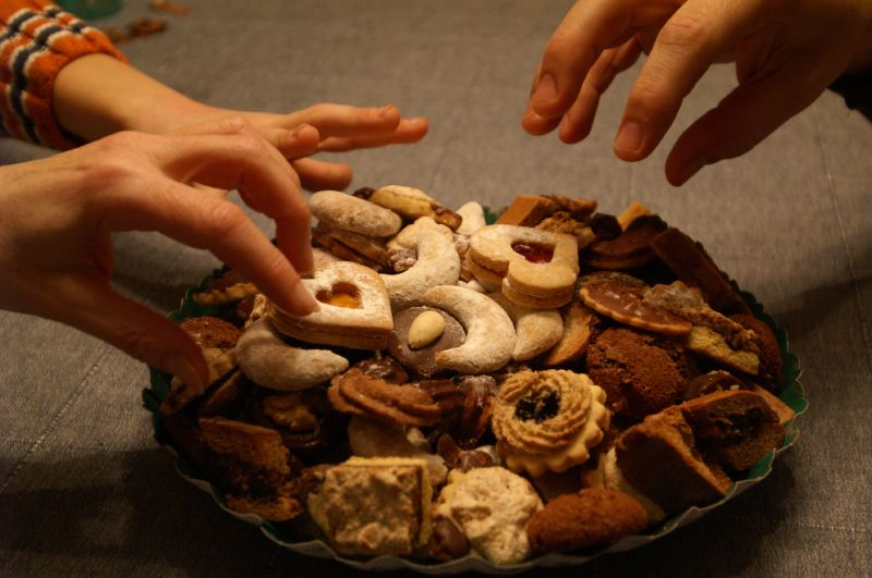 eat as much as you can